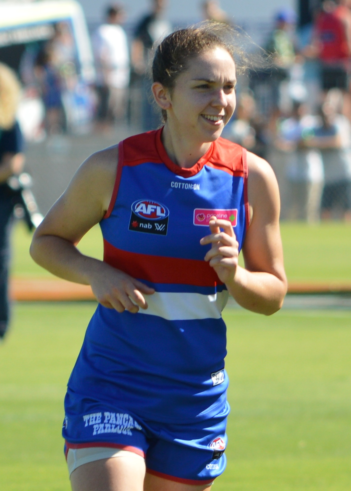 Naomie Ferres during the round 1 2018, AFL Women's match between the Western Bulldogs and Fremantle.